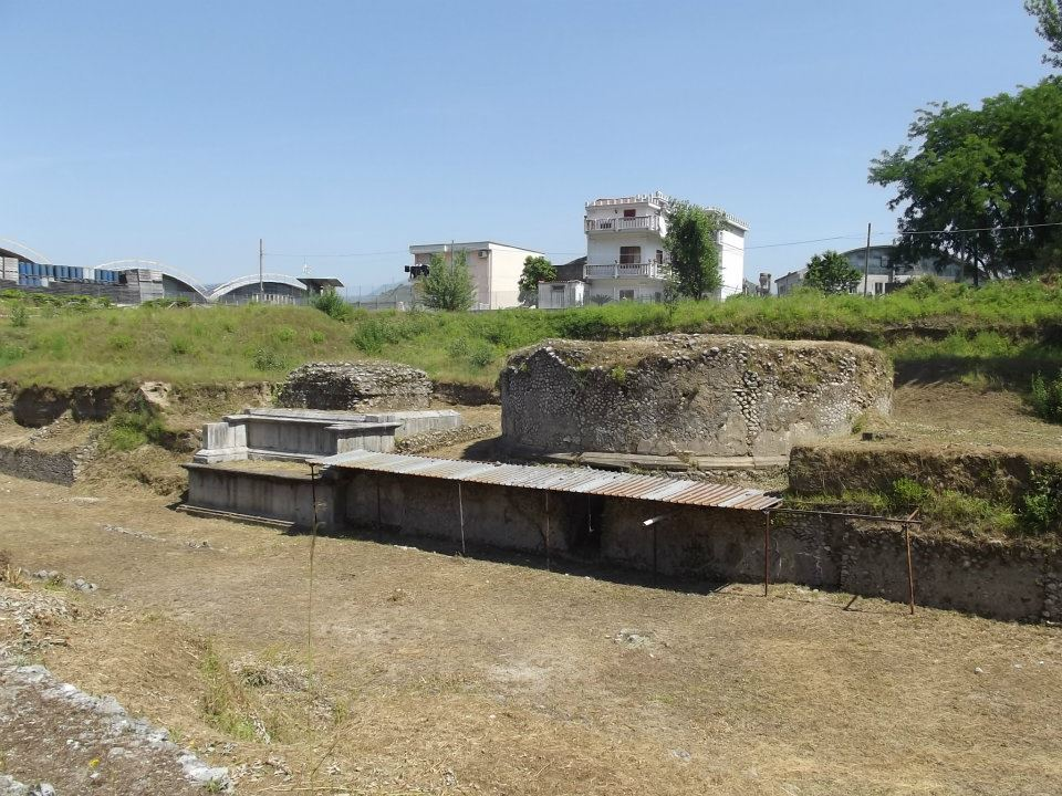 Necropolis of Pizzone, in Nocera Superiore, Italy.